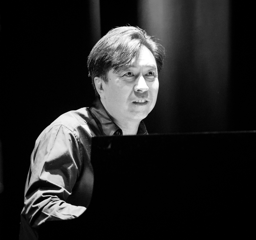 Makoto Ozone with Arild Andersen Quartet at the stage at Cosmopolite in Soria Moria. The concert took place on 15. November 2017 in Oslo. The concert was part of Cosmopolite's 25 year jubilee week. Lineup: Arild Andersen (double bass), Tommy Smith (saxophone), Paolo Vinaccia (drums) and Makoto Ozone (piano).